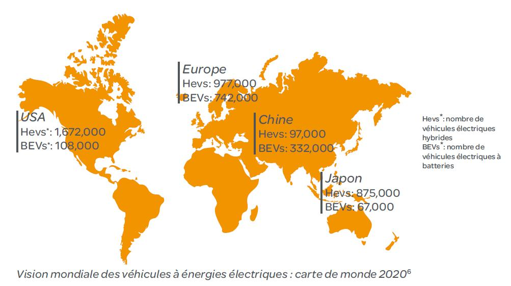 6°. Source : J.D. Power and Associates